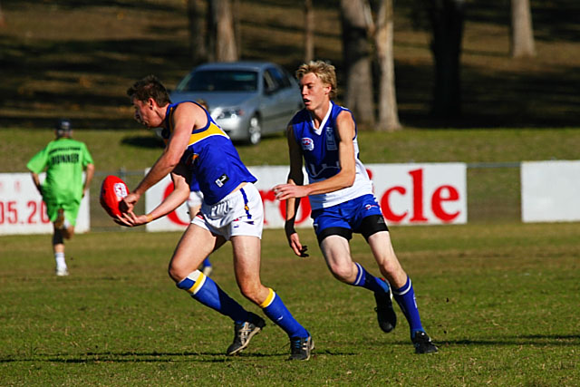 Handball pass, Australian Rules Football photo by Mike Funnell (mfunnell) 08JUL2006, East Coast Eagles vs Campbelltown, in western Sydney.